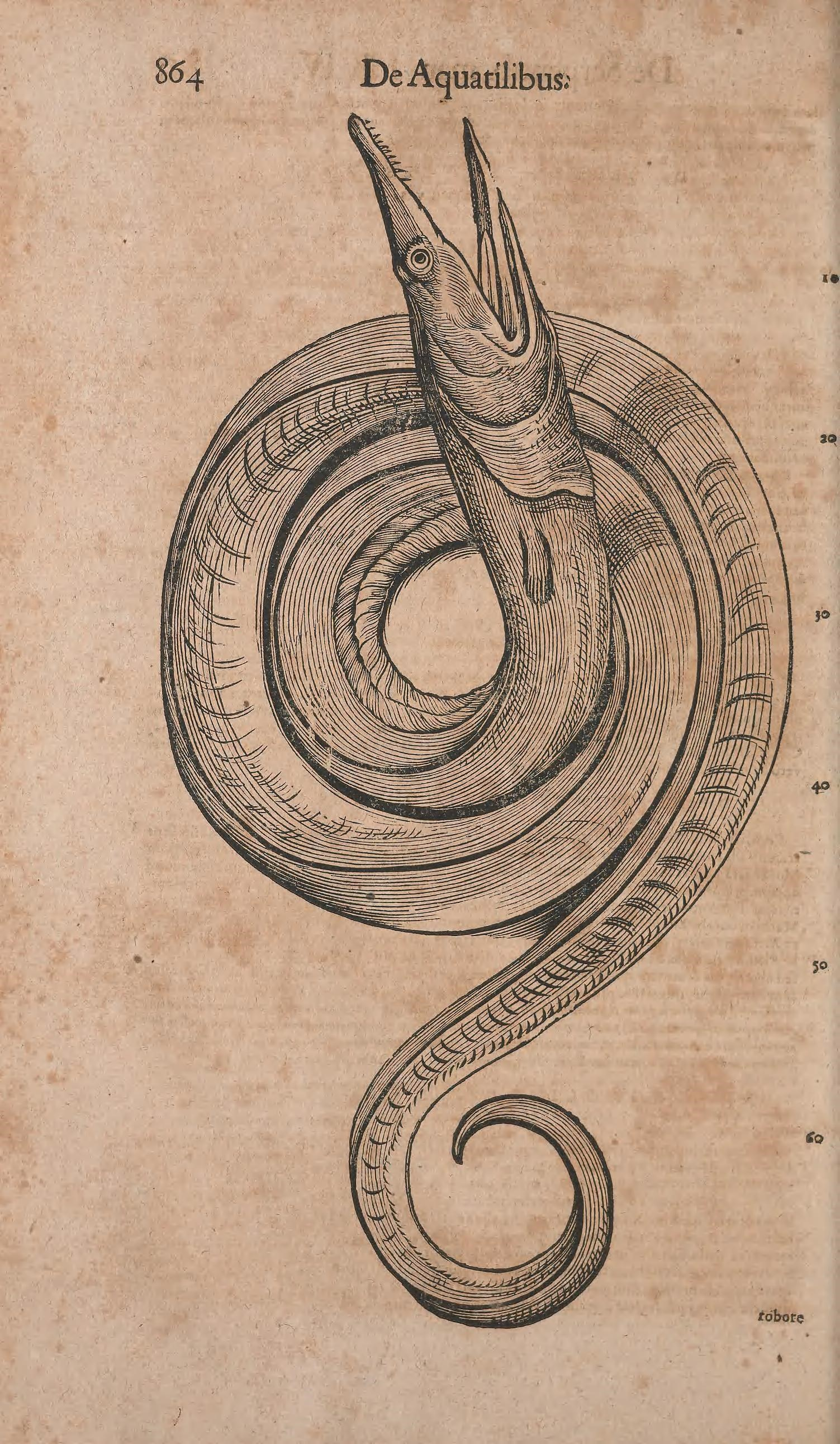 8tf 4 DeAquatilibus; !• JO 40 5° €0 rbbore